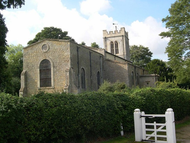 St Mary Magdalene parish church, Melchbourne, Bedfordshire, seen from the east